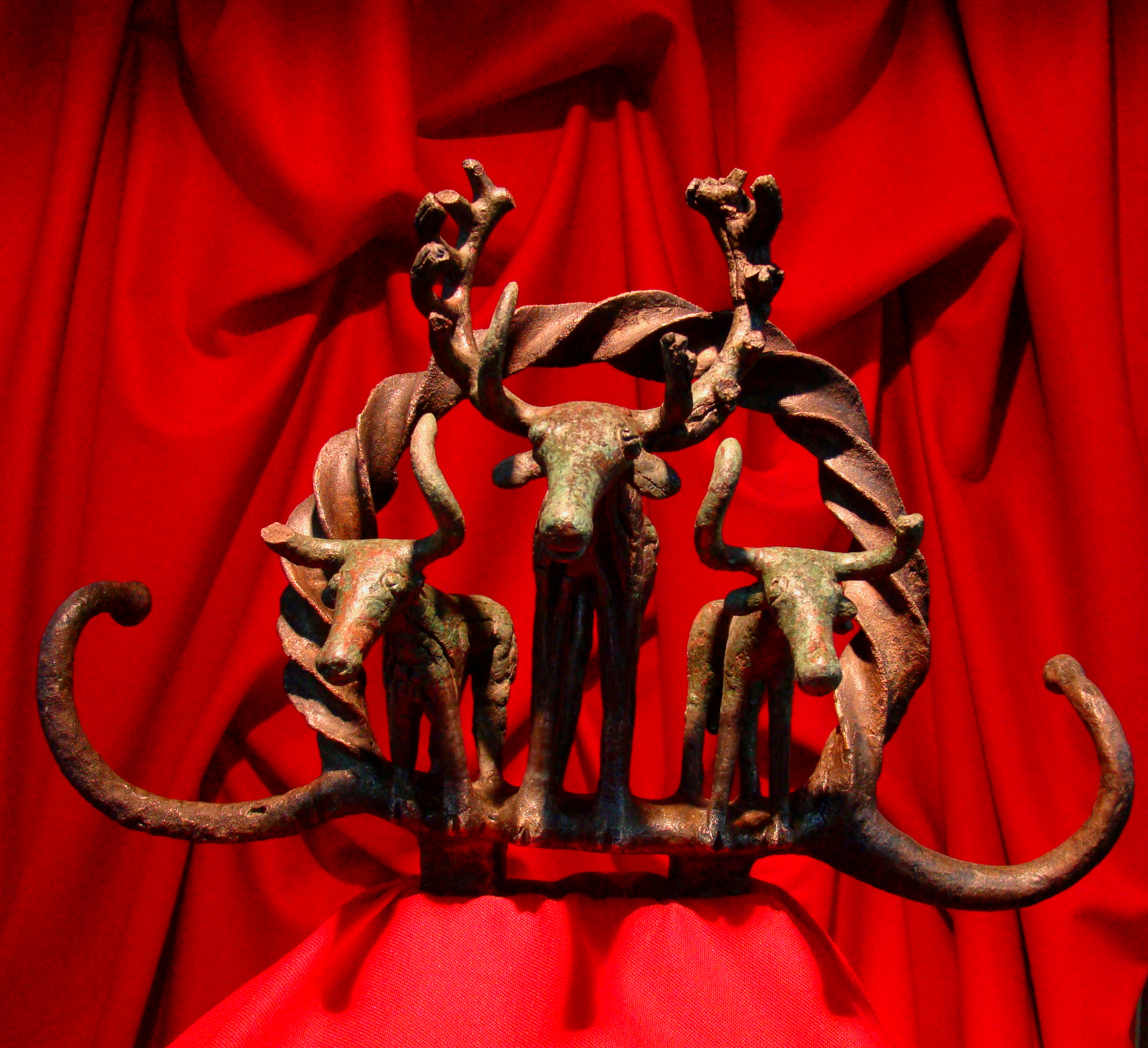 From the Museum of Anatolian Civilisations in Ankara, Turkey. Hittite figures of bulls and stags, previously used as the city emblem of Ankara.